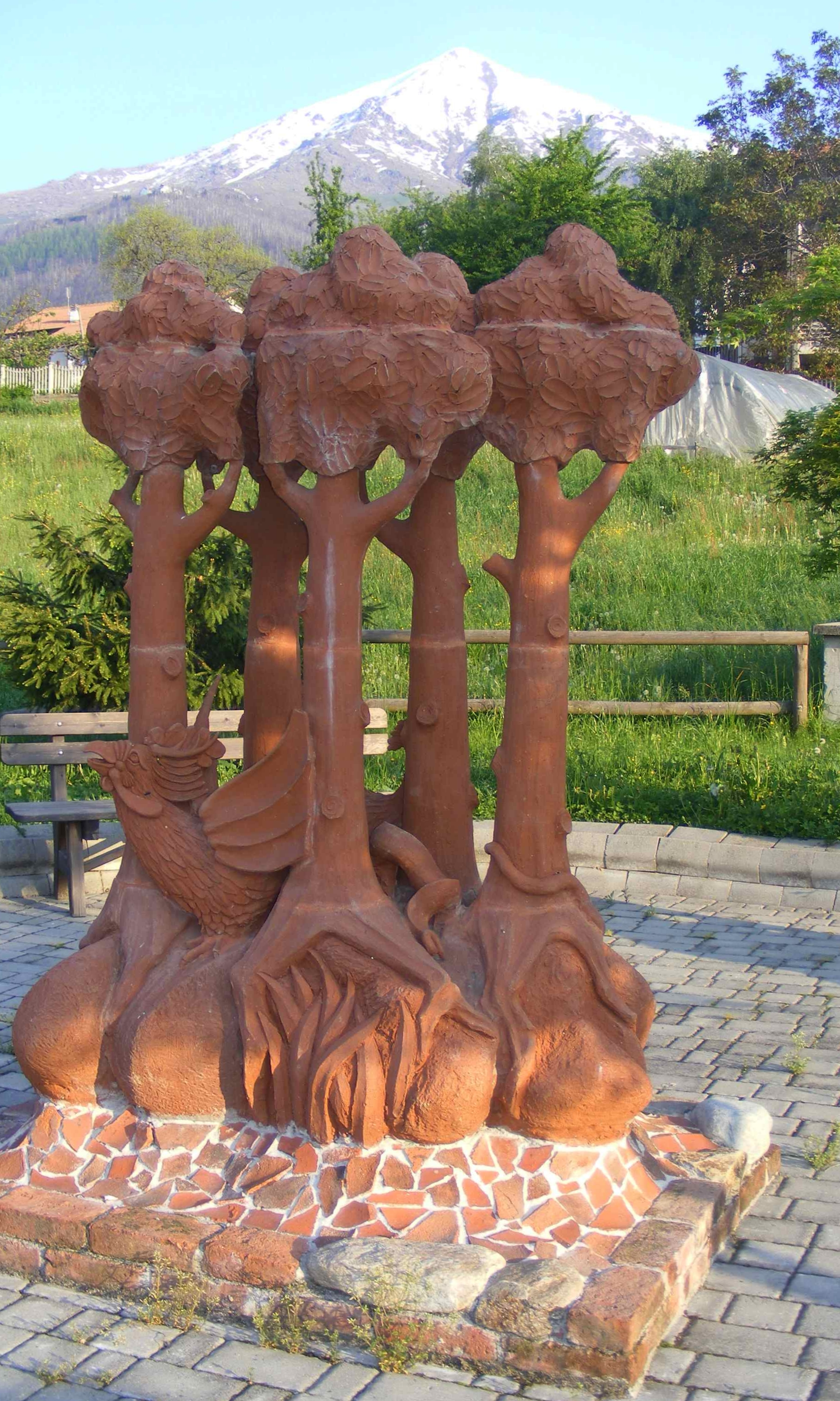 Cintano (TO, Italy): monument to the basilisco, by Roberto Castellano (background: Punta Punta Quinseina)